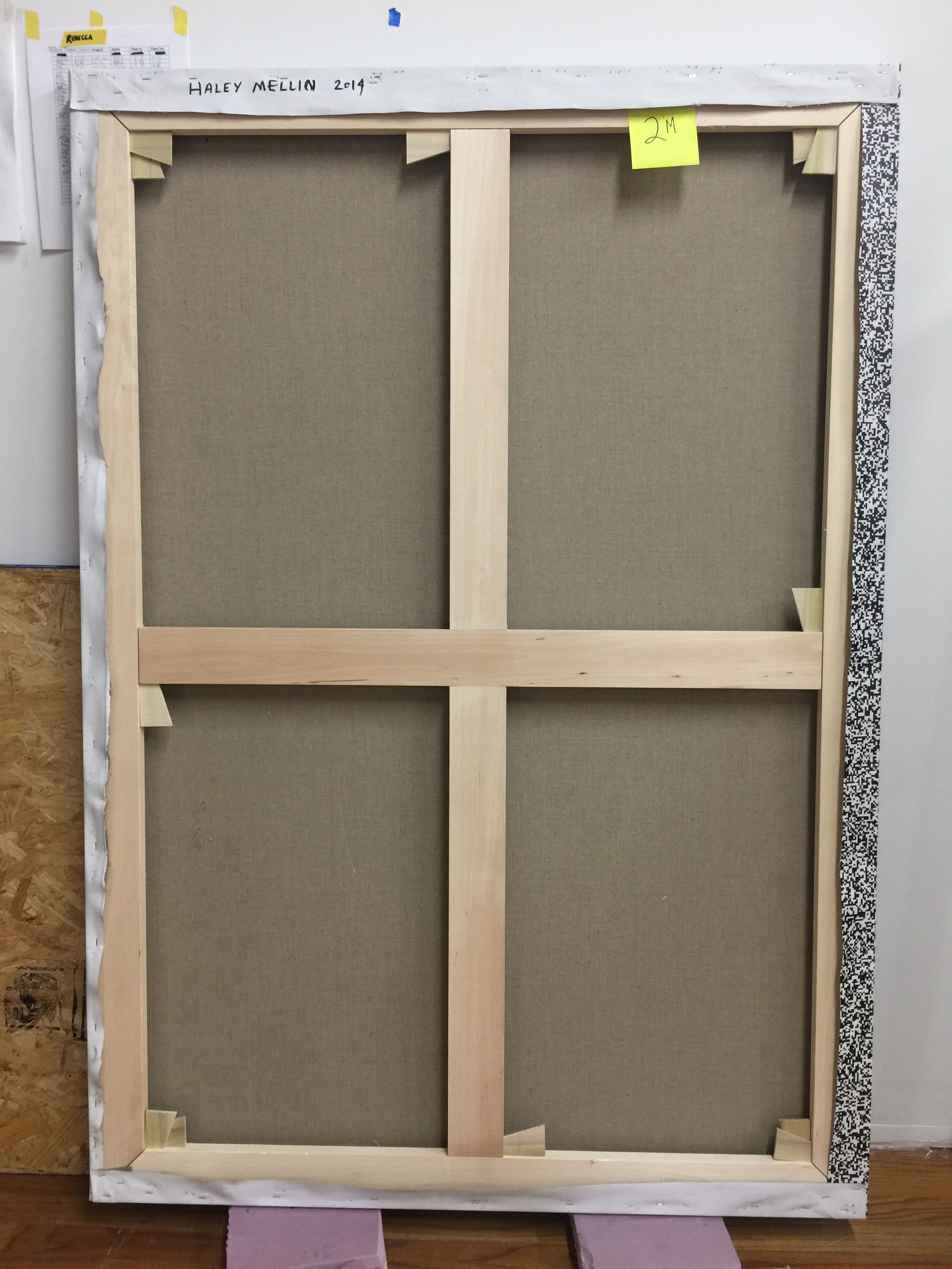 Haley Mellin, Studio visit Ink on Linen